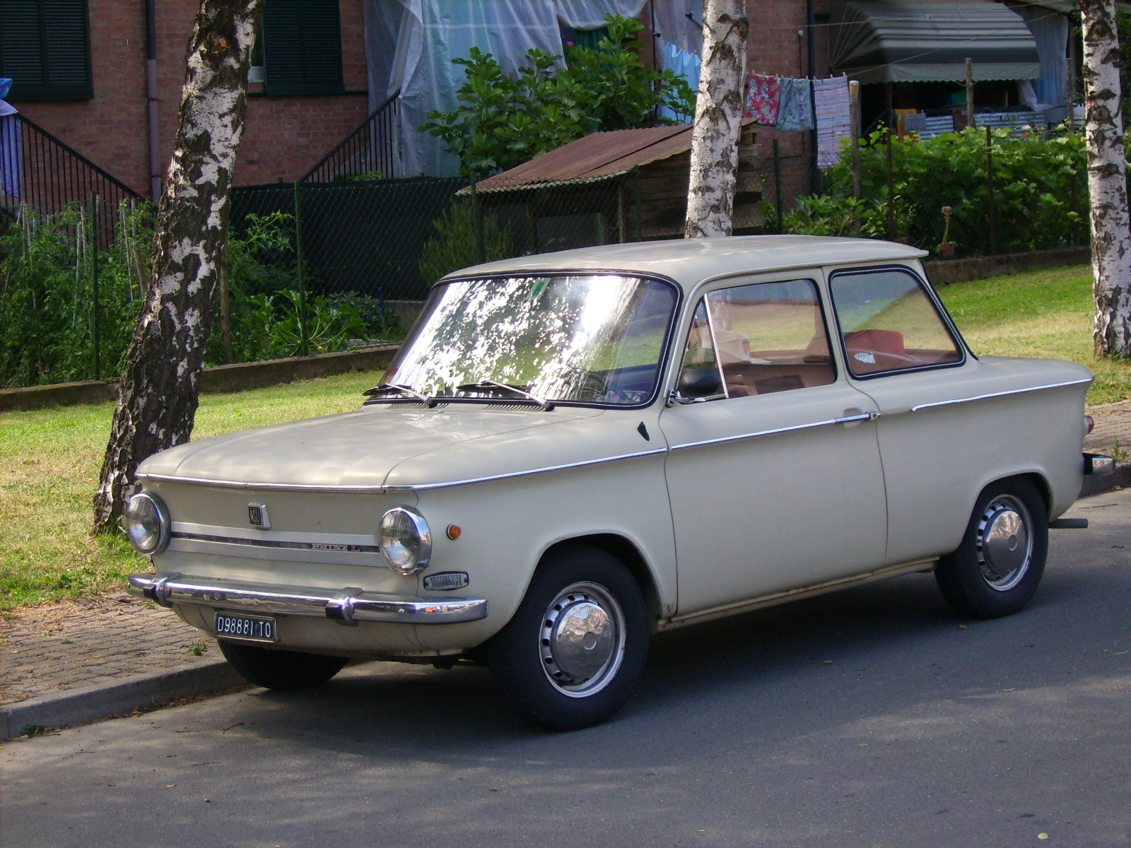 A nicely mantained NSU Prinz L at Acqui Terme (Piemonte, NW Italy). Praktica Luxmedia 6203. 8.7.2007